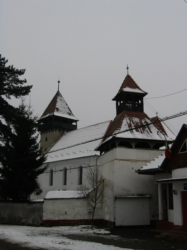 Made by me, December 2005.